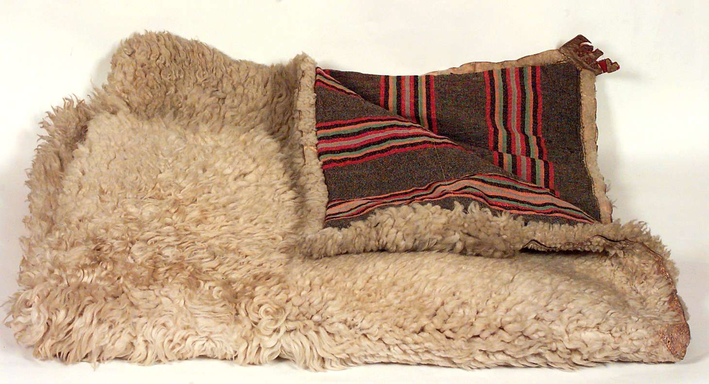 Sheepskin with woven textile attached to it. 170.0 cm x 140.0 cm Made by Ole Larsen Lien. From Tolga, Hedmark, Norway.